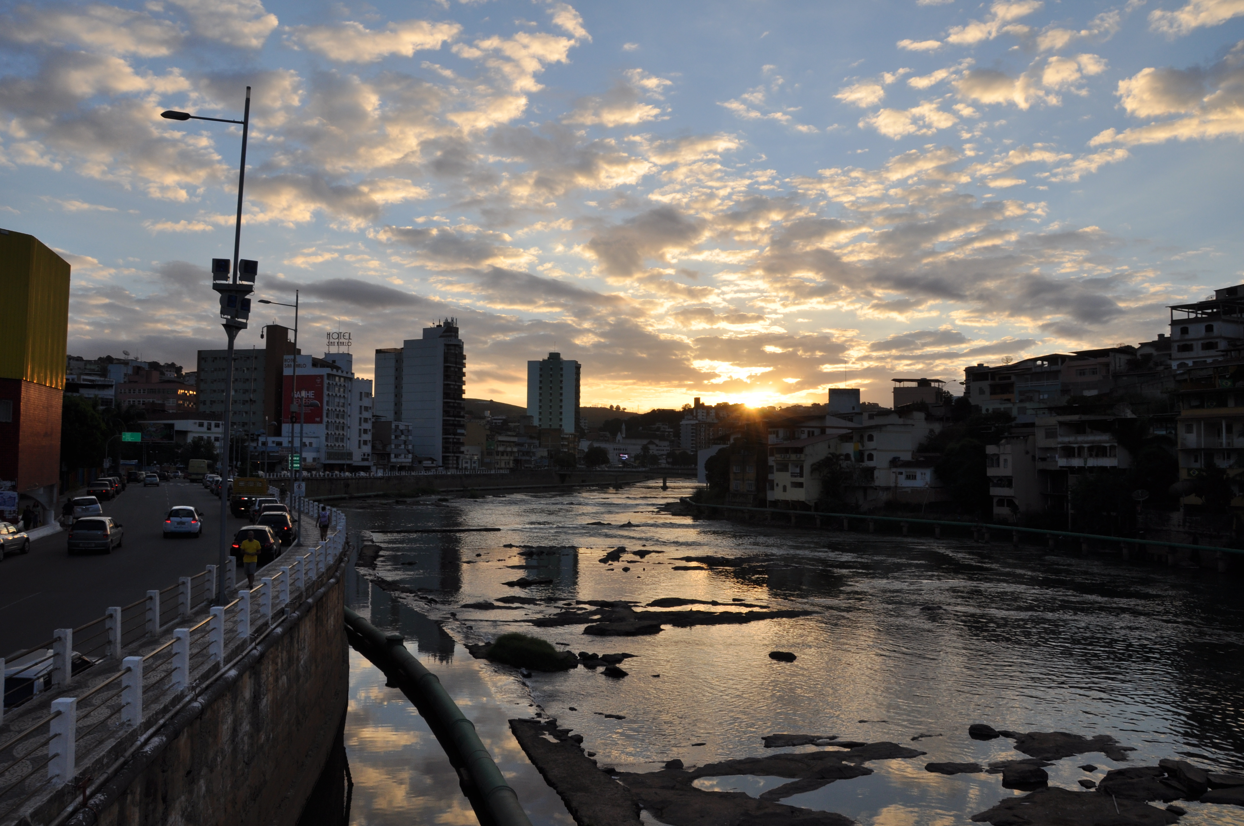 Sunset at the Itapemerim River, in Cachoeiro de Itapemirim, Espírito Santo, Brazil.